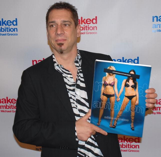 Celebrity photographer and author Michael Grecco at the launch of his book, Naked Ambition